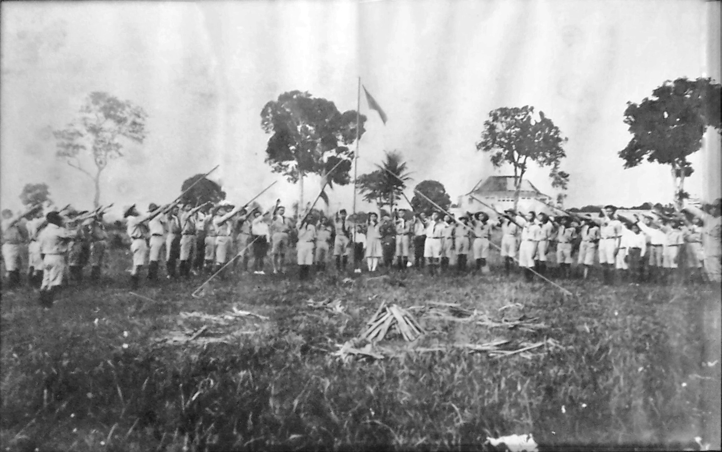 Indonesische Nationale Padvinderij Organisatie of Indonesia.